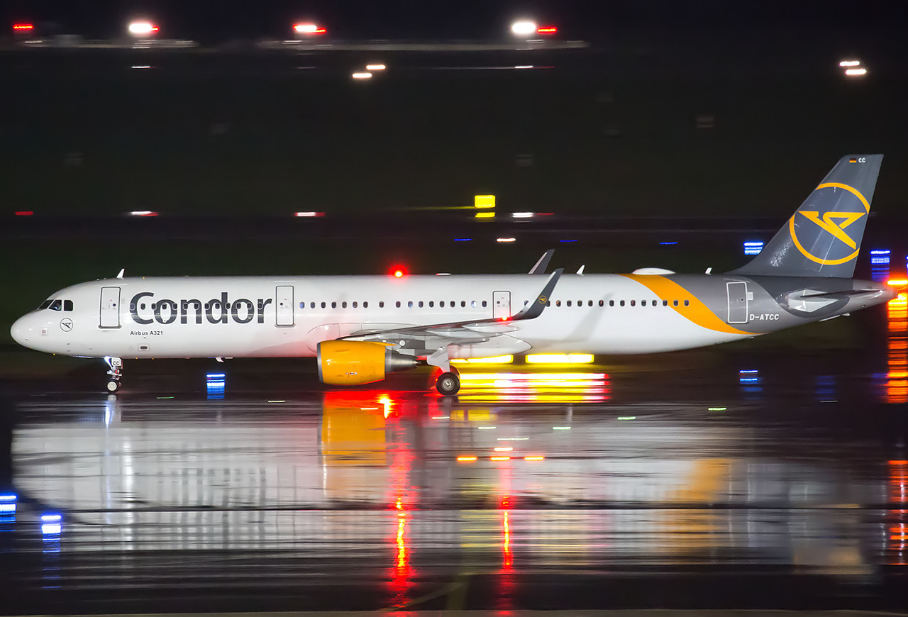 Condor airbus a321 in new livery